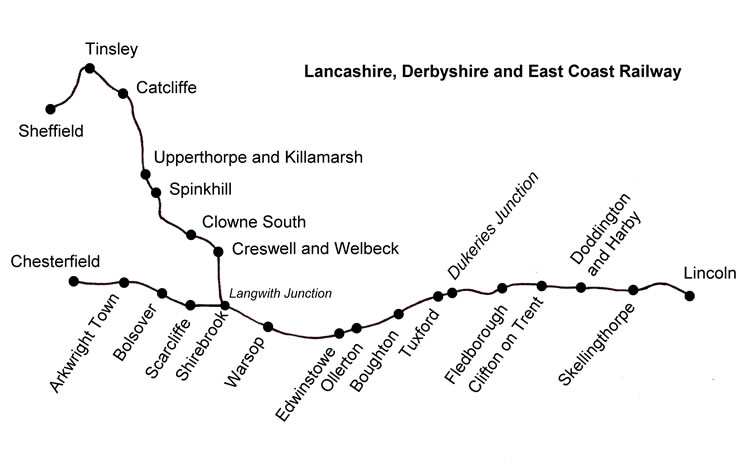 Lancashire, Derbyshire and East Coast Railway sketch map.